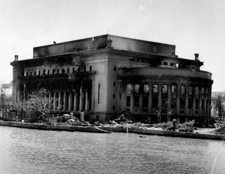 Damage to the Manila Post Office 1945